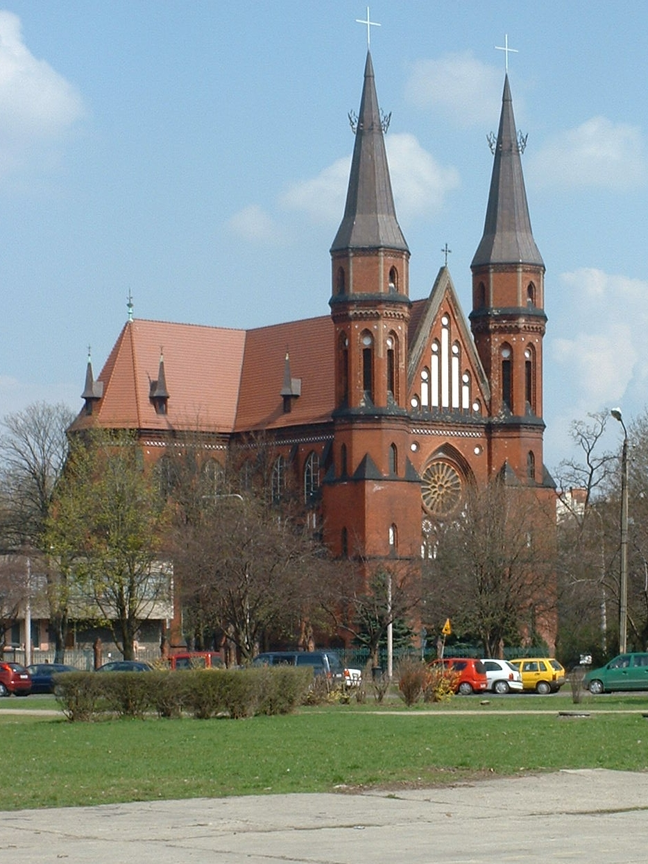 Wrocław, Poland, St. Henry Church, Gothic revival. Designed by Joseph Ebers, built 1891-94, spires built by Maciej Małachowicz in 2003.